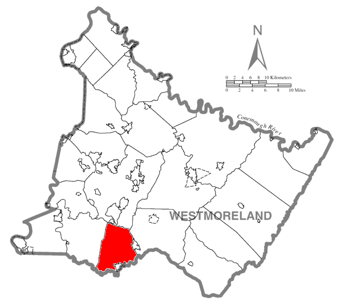 Map of Westmoreland County, Pennsylvania highlighting East Huntingdon Township